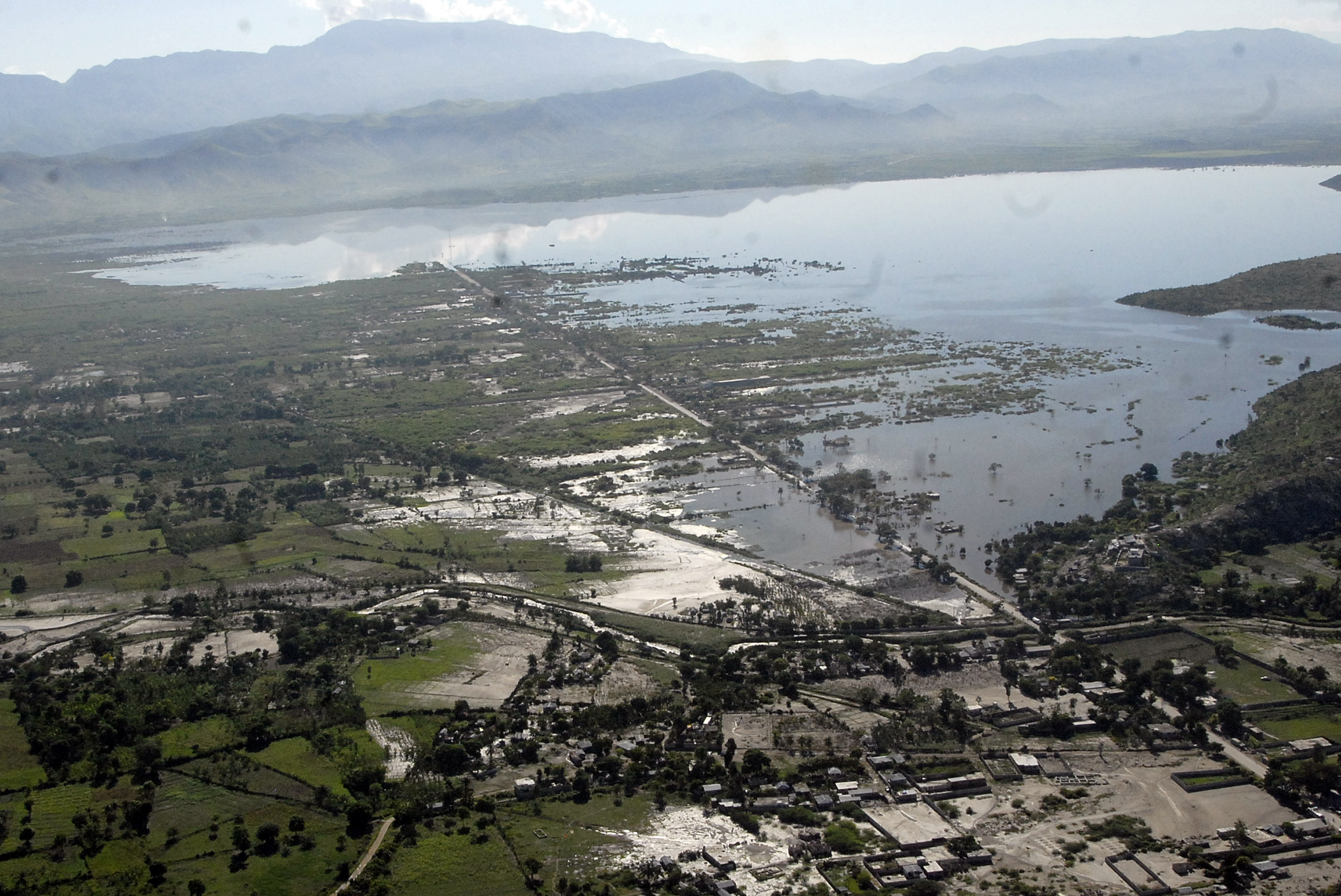 Gonaives, Haiti.